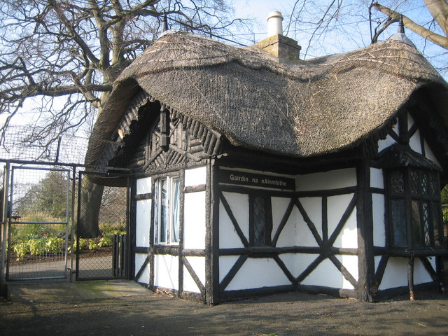 Old Entrance Lodge Dublin Zoo Built in 1833